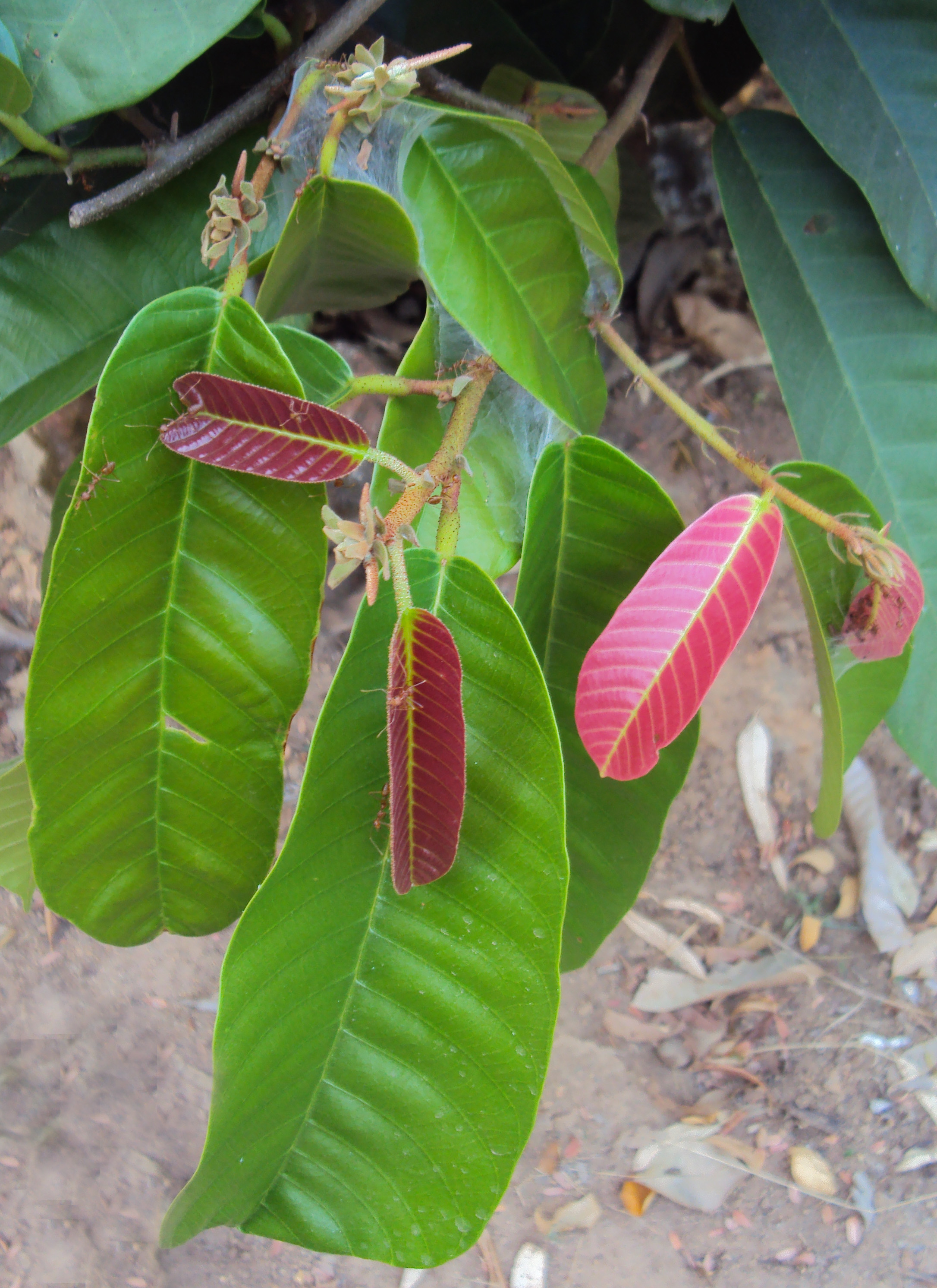 വെള്ളപൈന്‍, വെളുത്ത കുന്തിരിക്കം, White Dammer